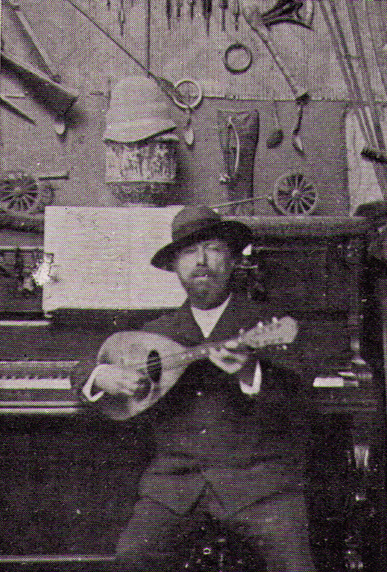 The Belgian-French painter Charles Castellani (1838-1913) posing with musical instruments.